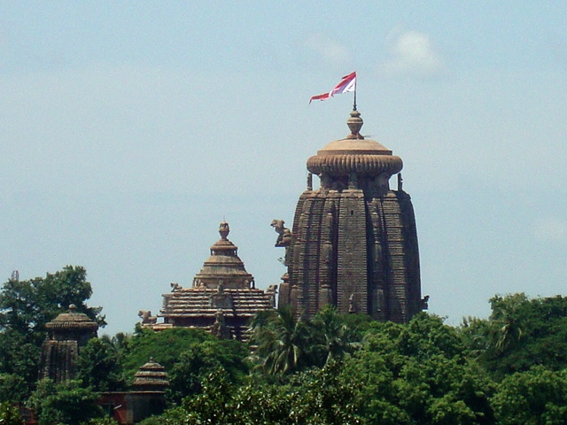 Famous Lingaraj temple of Bhubaneswar,Odisha